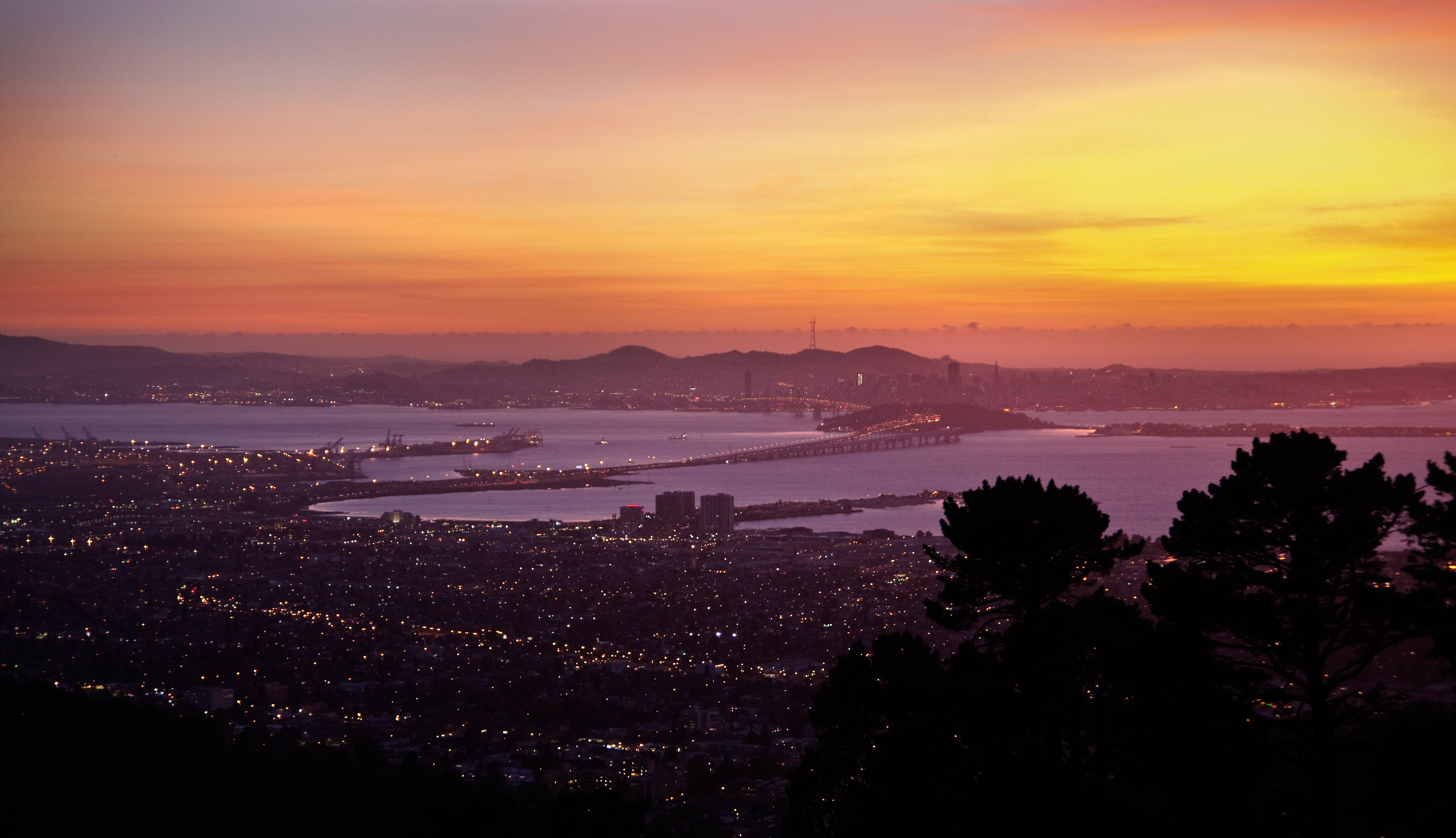 View from Berkeley hills